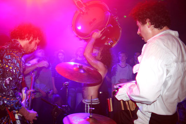 Monotonix in Barzilay Club